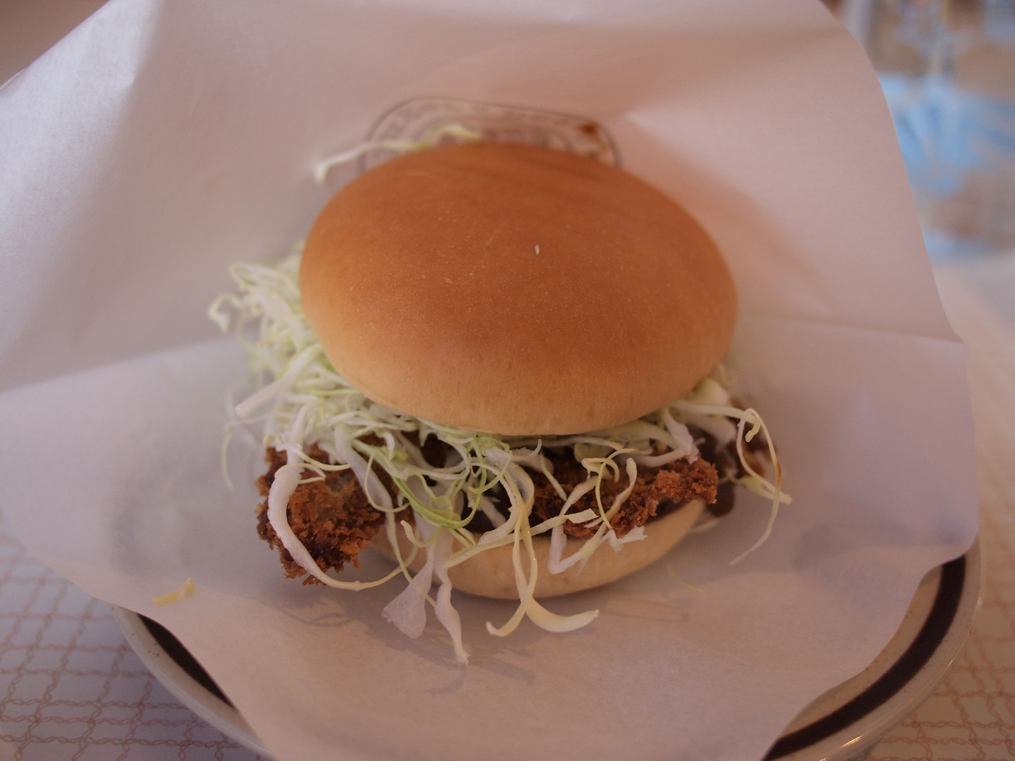 Shiraoi beef cutlet burger, Shiraoi, Hokkaido, Japan